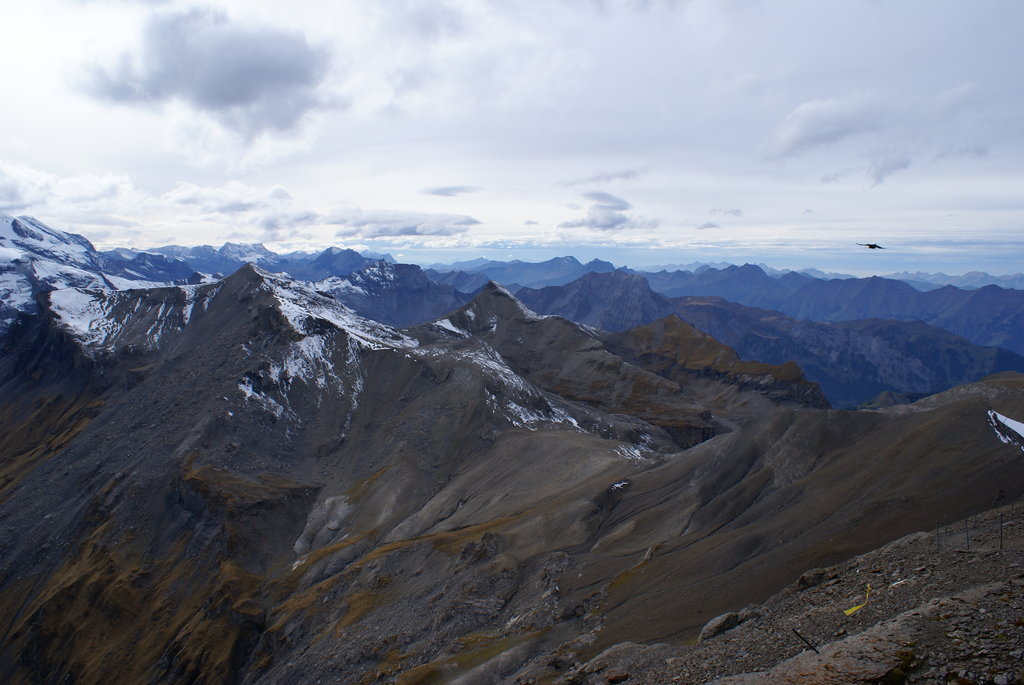 view from Schilthorn towards west